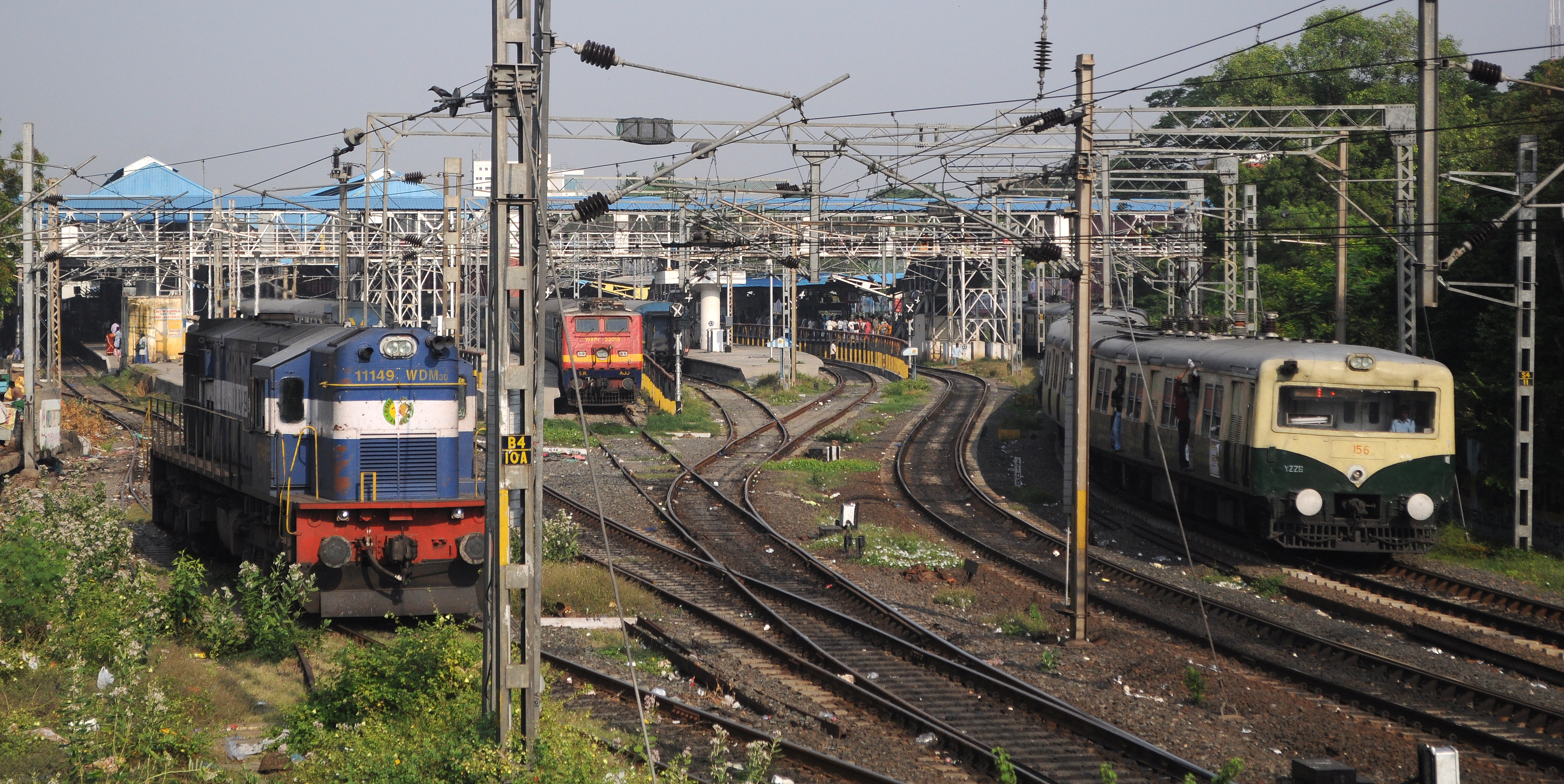 This morning photo, taken in May 2011, shows a view westward into the Egmore station with a single engine at left, a red train at center and a yellow/green (presumably city commuter) train at right.